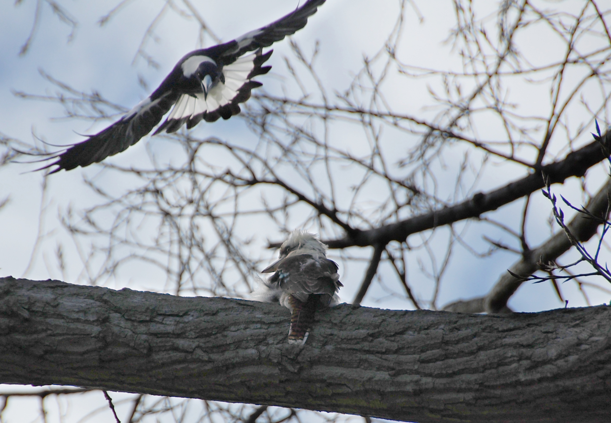 A laughing kookaburra (Dacelo novaeguineae) being swooped by a magpie. Lightened and cropped version of